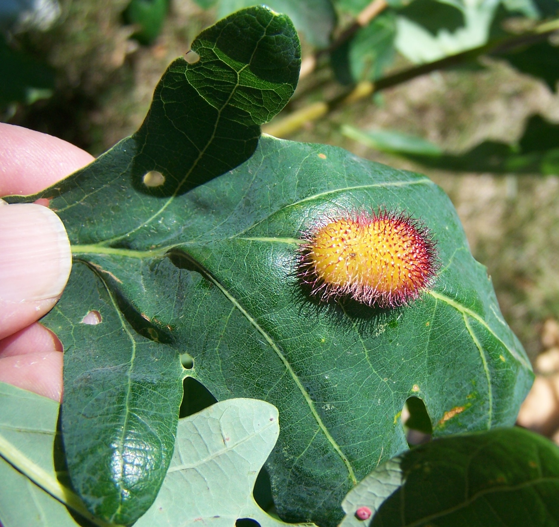 Oak hedgehog gall on White Oak (Quercus alba) leaf, caused by a Cynipid gall wasp.